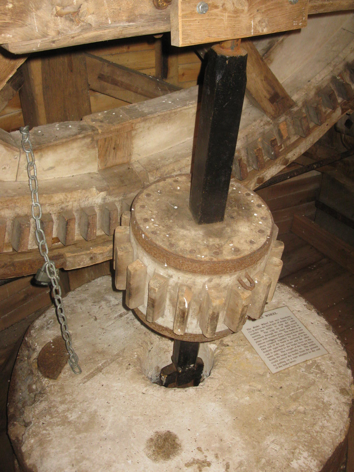 A photograph showing the head stones, Stocks Mill, Wittersham. Note that the stone furniture is missing.